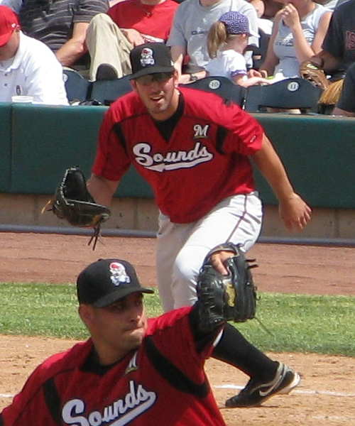 Joe Koshansky, a first baseman for the minor league Nashville Sounds, prepares to field the ball in a game at Isotopes Park on May 9, 2010